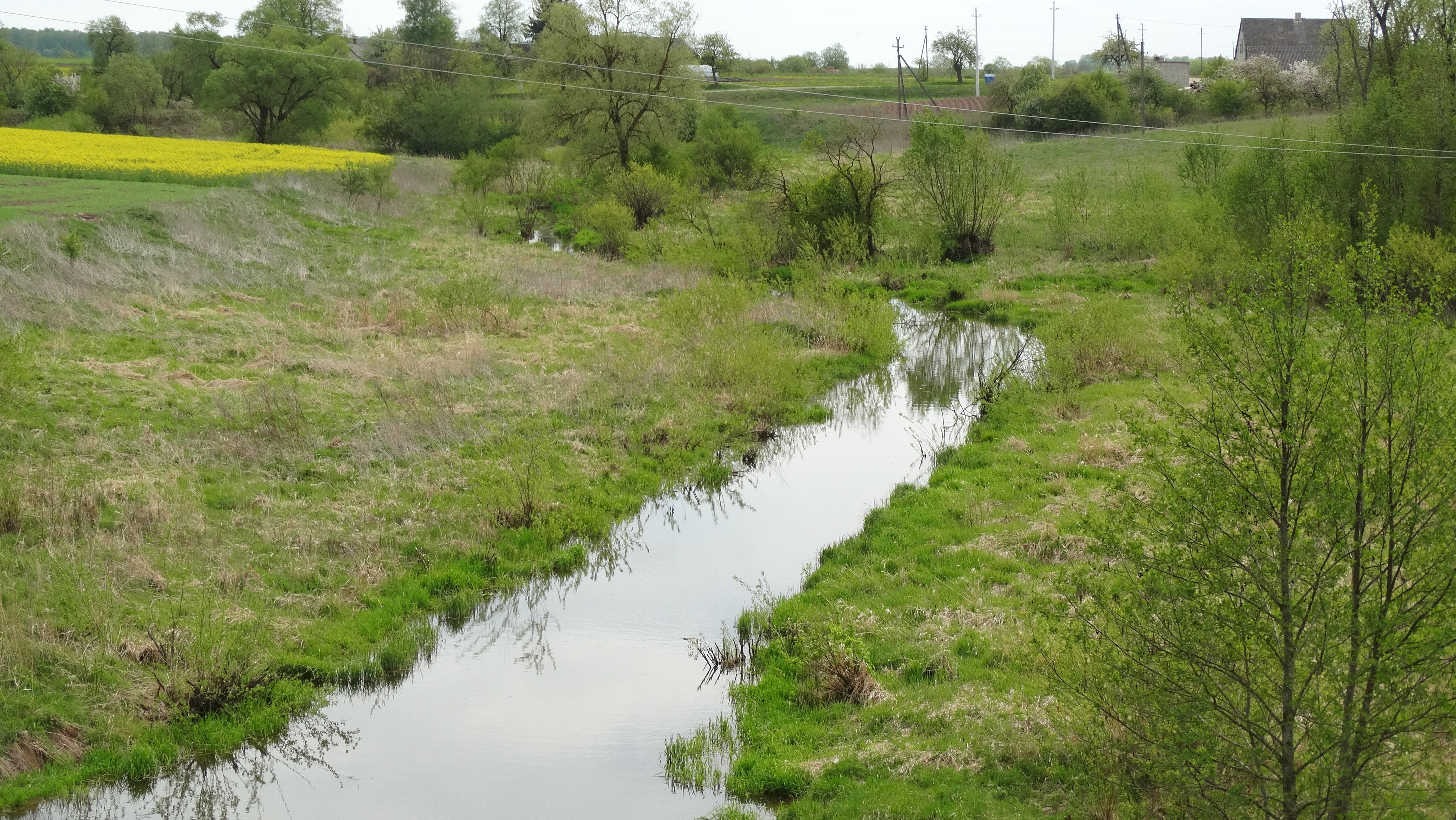 Liauda stream, Pociūnėliai, Radviliškis District, Lithuania